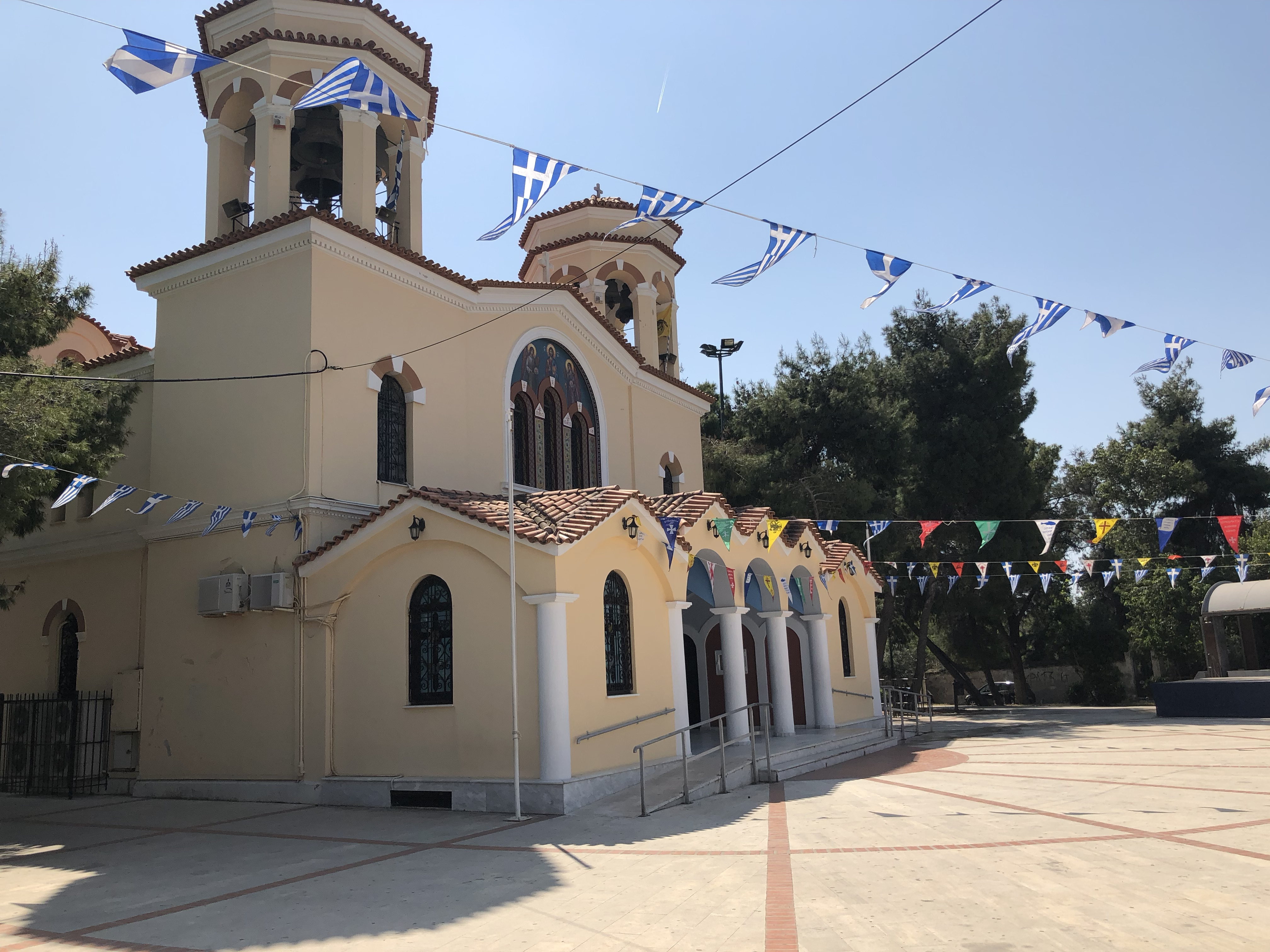 Ekklisia Agios Georgios